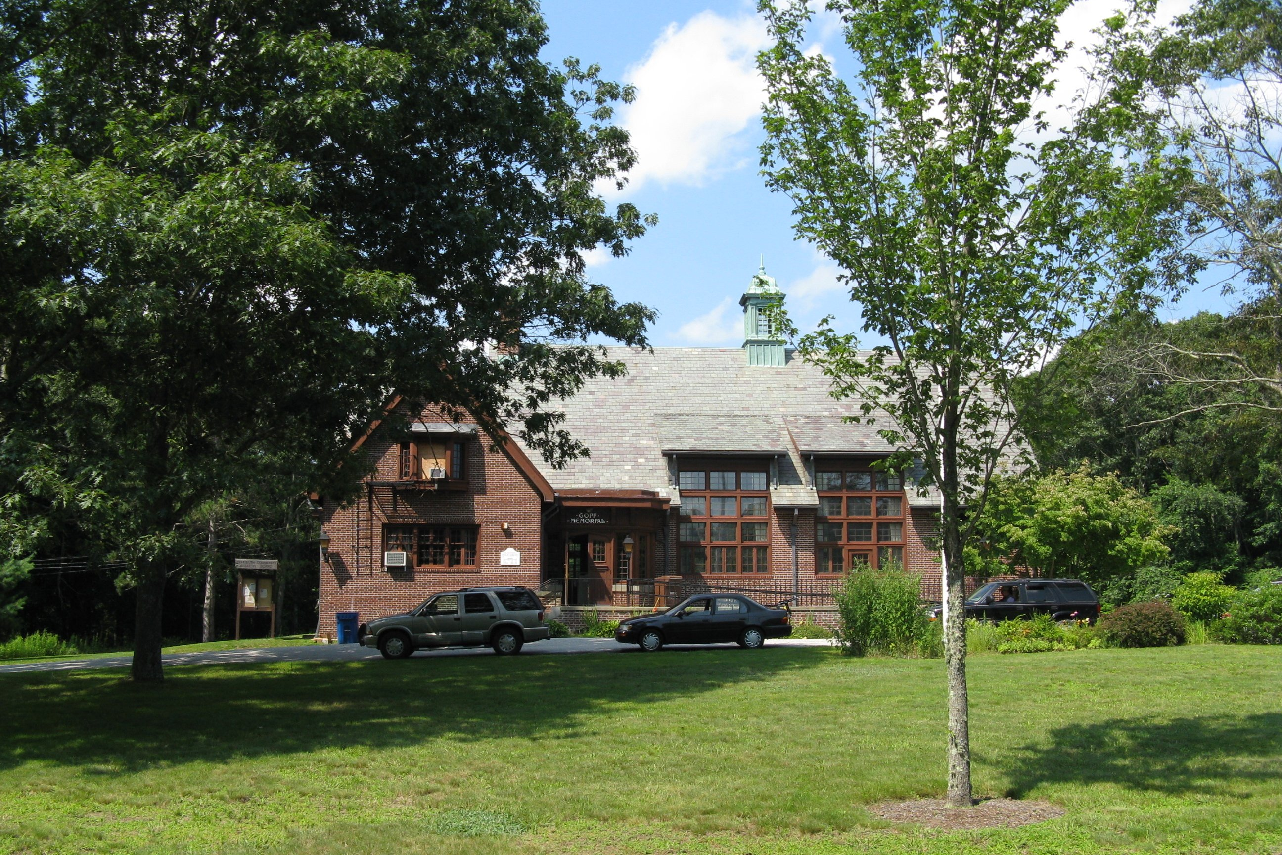 Goff Memorial Hall, Rehoboth Massachusetts, July 2009